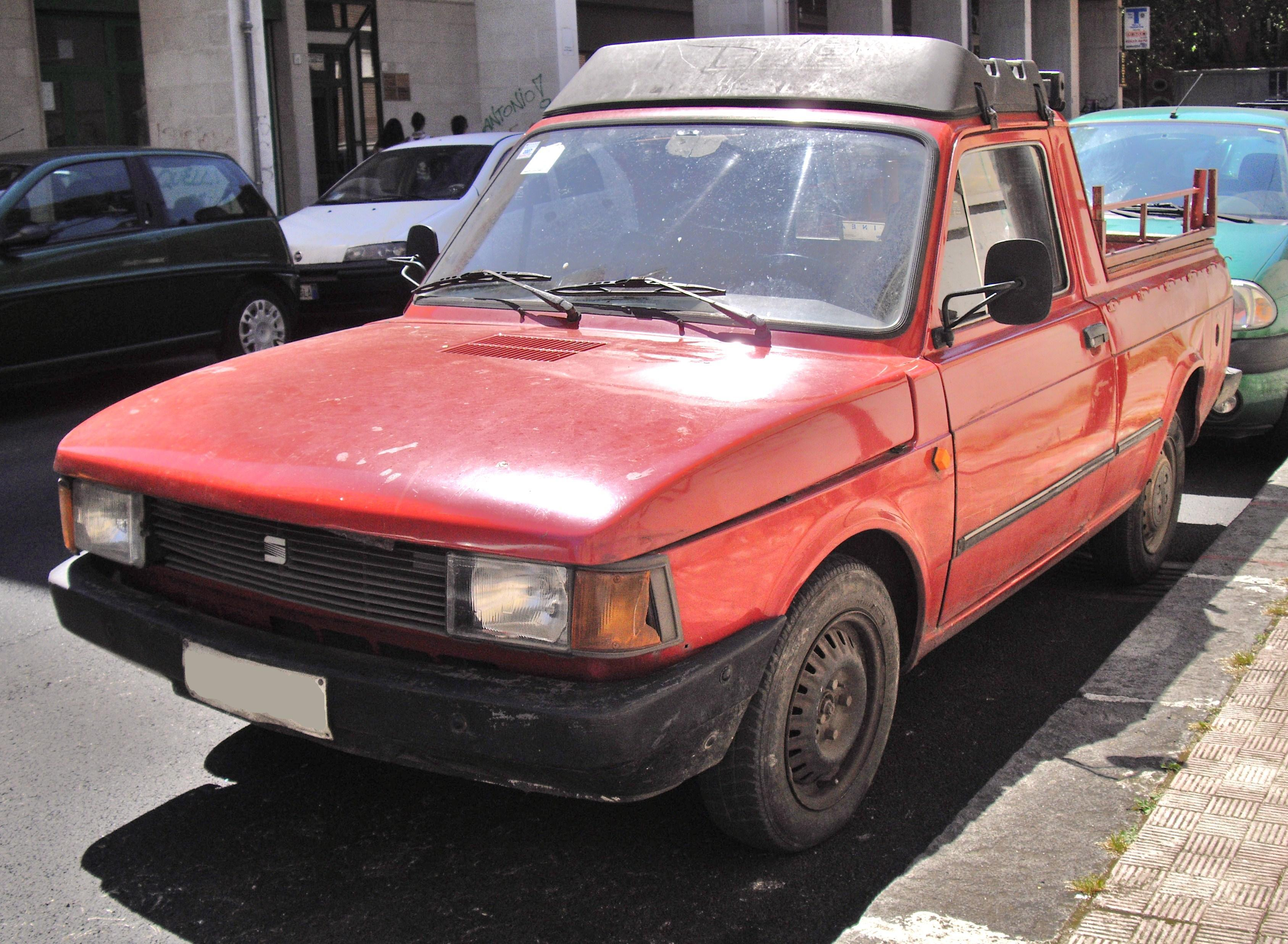 Seat Fiorino pick-up